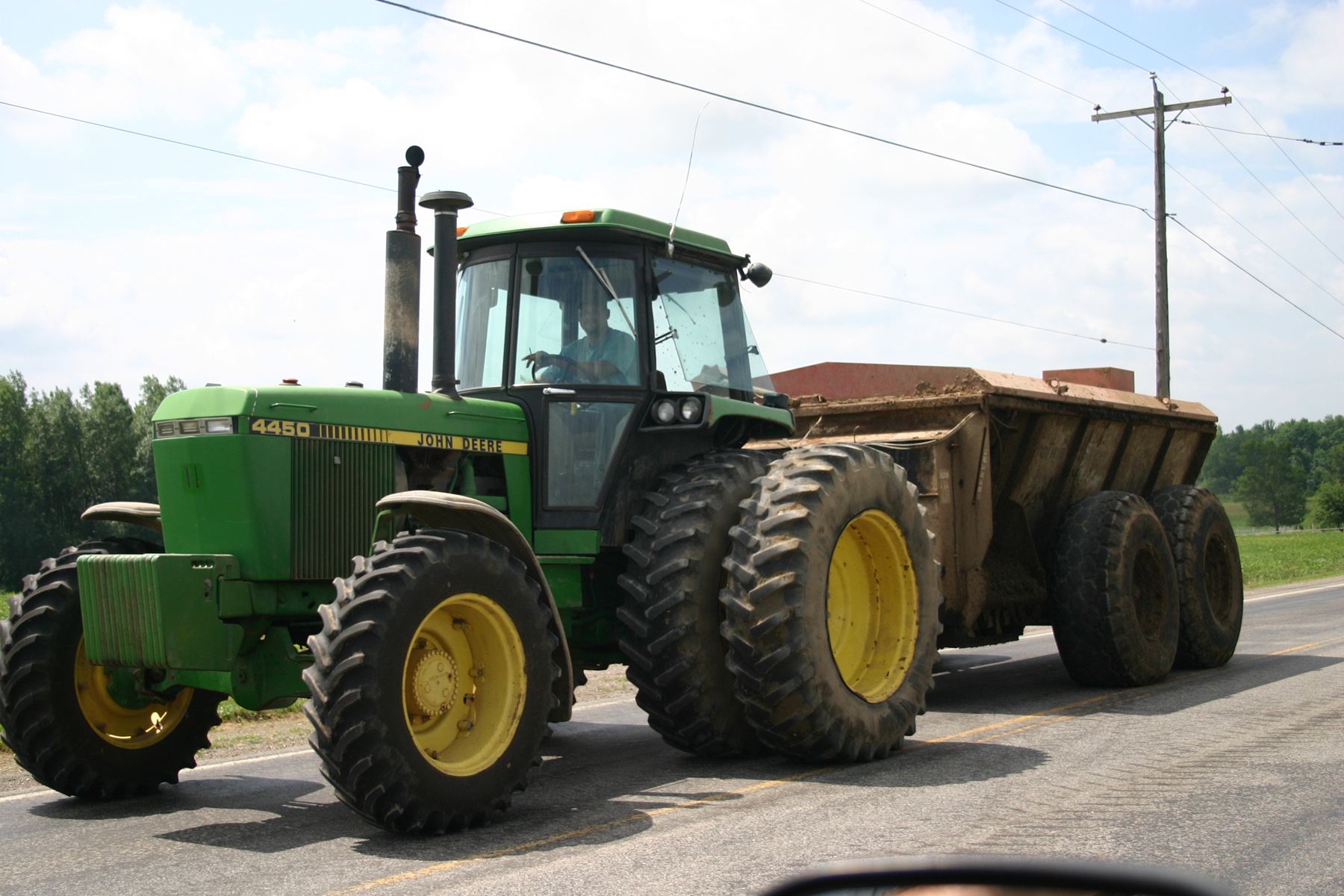 A John Deere 4450 tractor with a manure spreader going to the field from a dairy farm, Elba, Genesee County, New York, USA